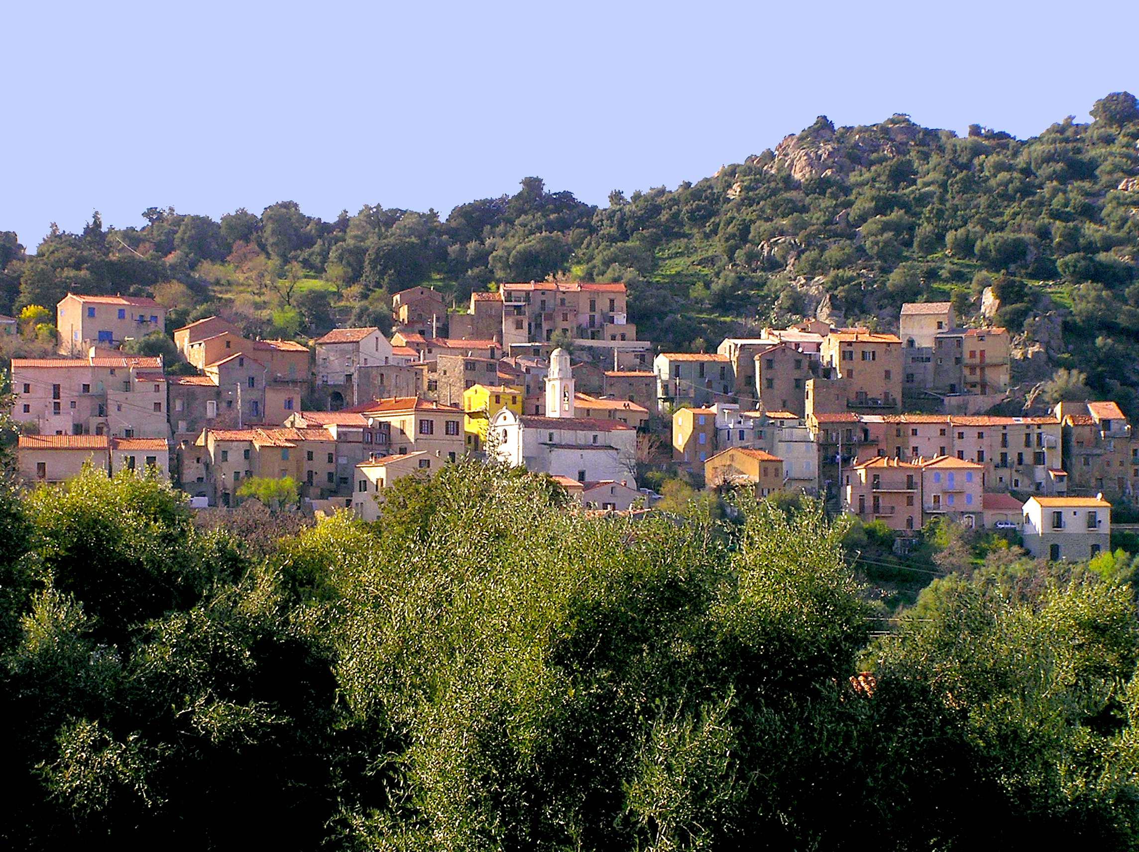 Moncale Village